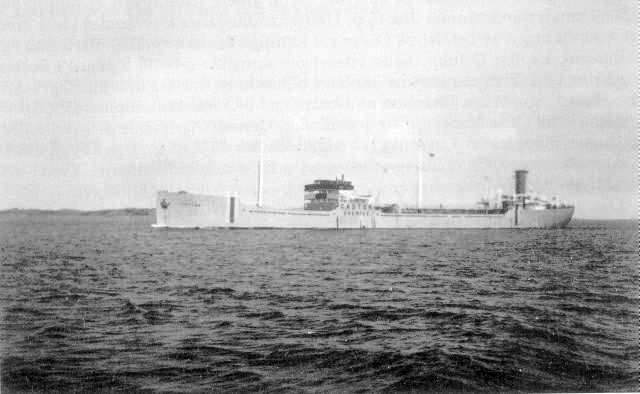 Swedish oiler "Castor" at Vigo in Spain, in may 1940.